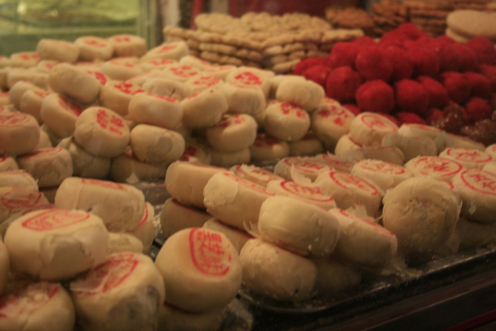 Crystal cake, a pastry native to Shaanxi, China